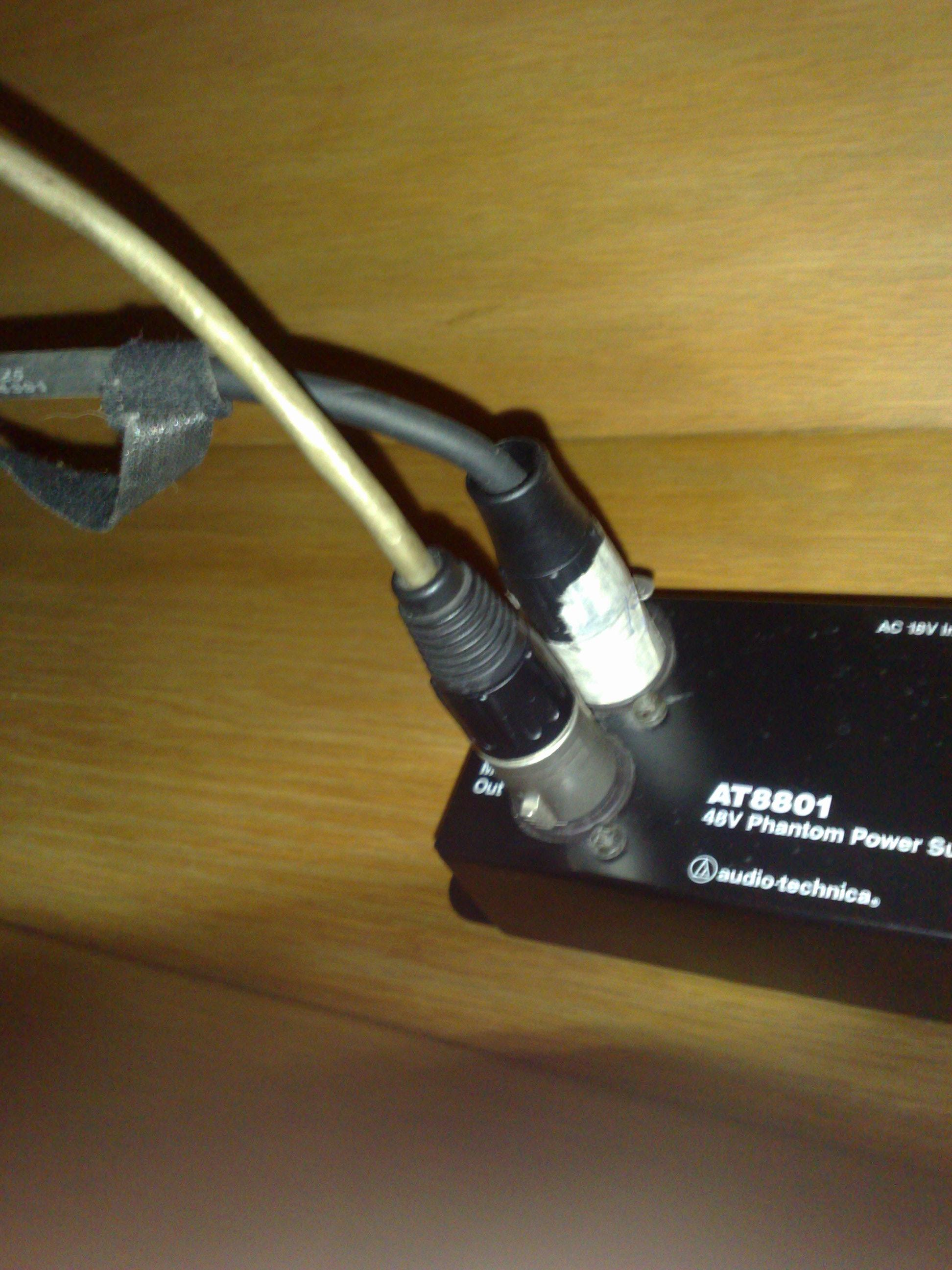 Audio-Technica AT8801 Single-channel 48V Phantom Power Supply